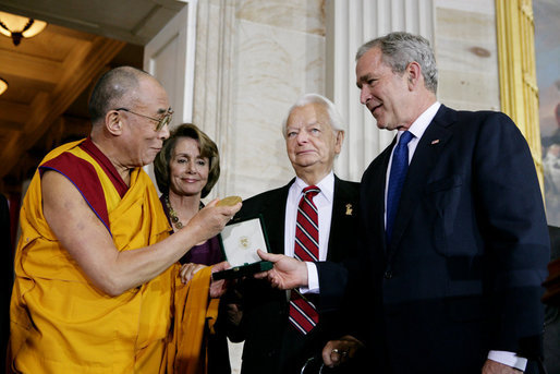 President George W. Bush, joined by U.S. Senator Robert Byrd and House Speaker Nancy Pelosi, presents the Congressional Gold Medal to The Dalai Lama at a ceremony Wednesday, Oct. 17, 2007 at the U.S. Capitol in Washington, D.C.